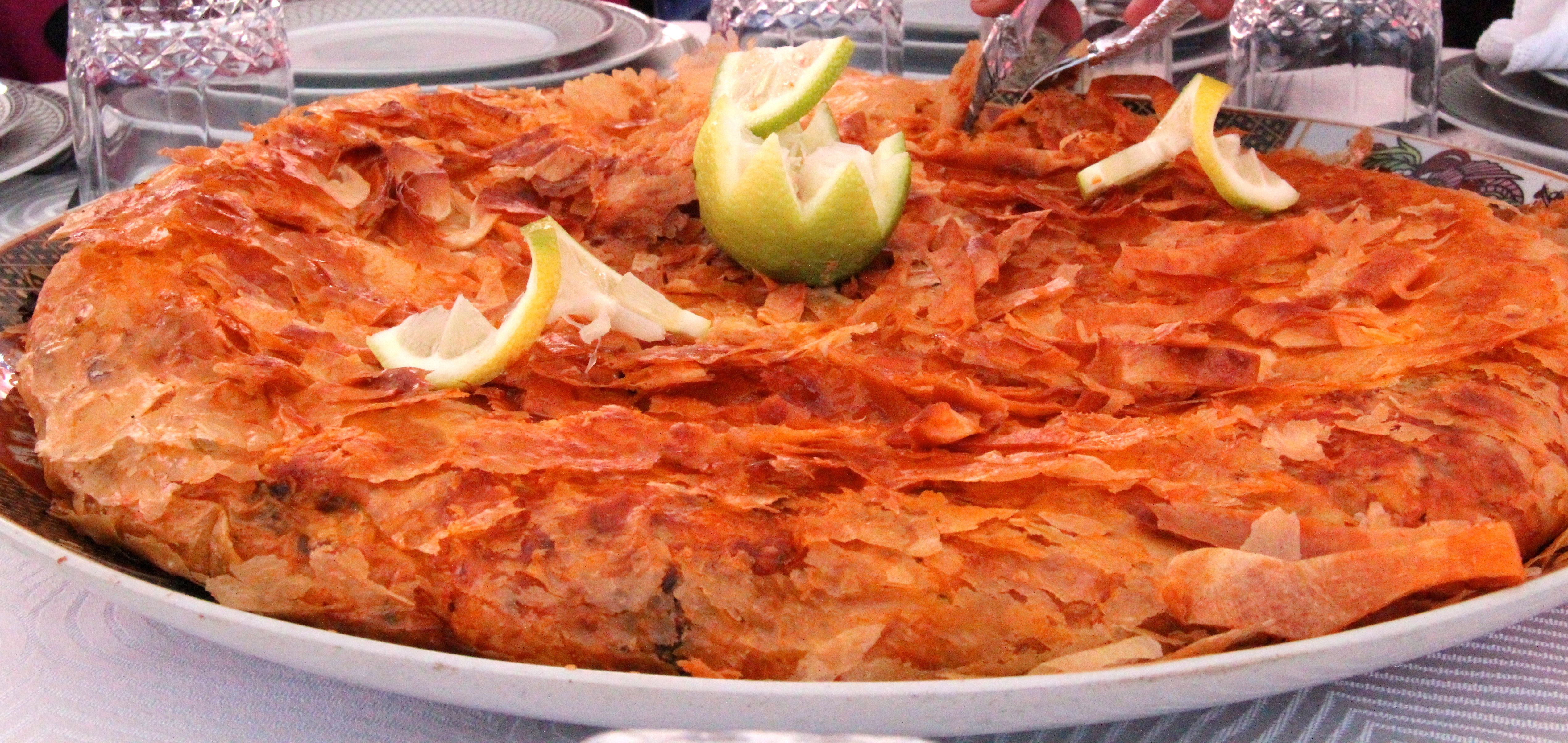 Sea food Pastilla This is an image of food from Morocco